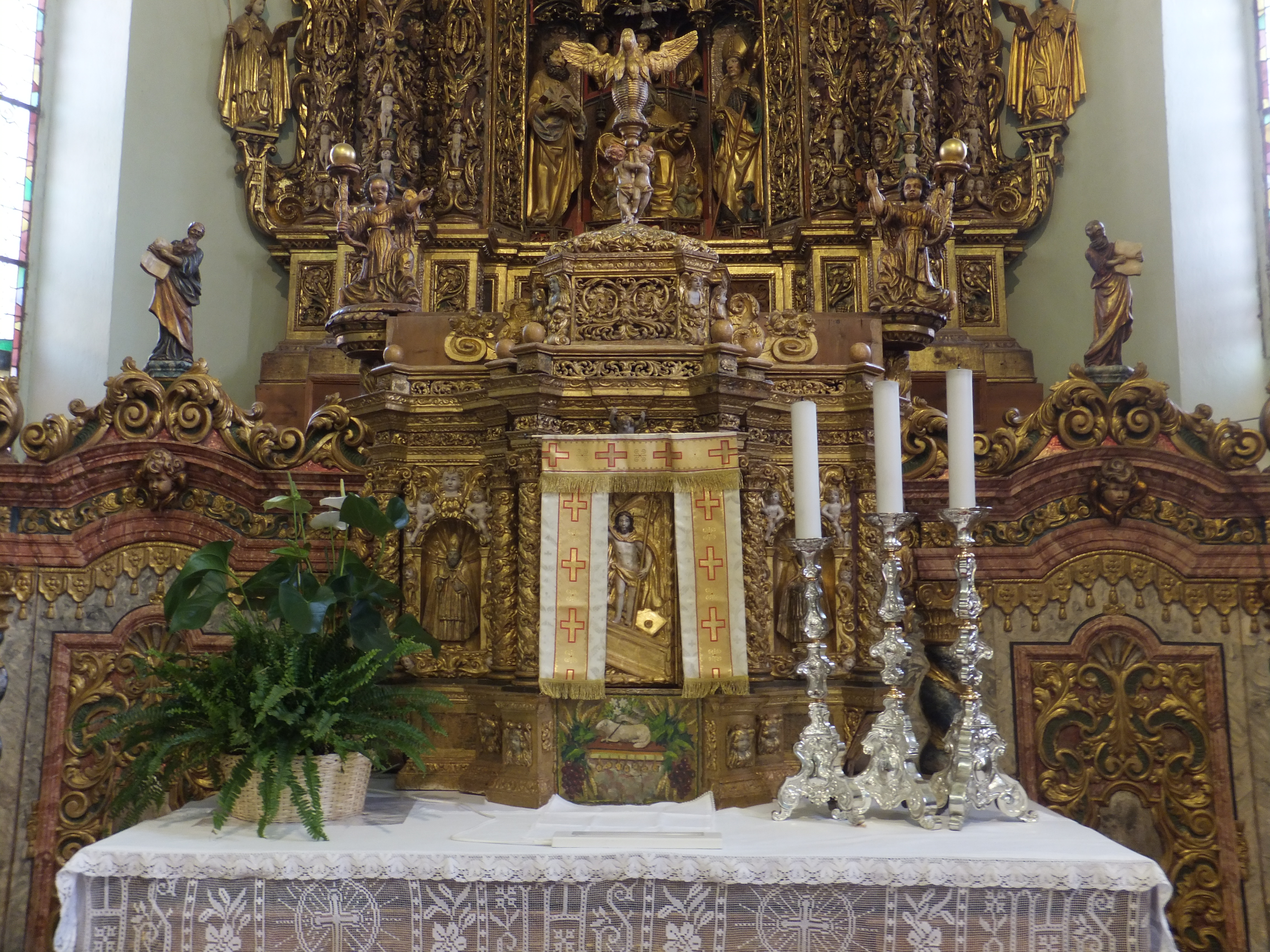 Segonzano (Trentino, Italy) - Holy Trinity church, interior - Tabernacle